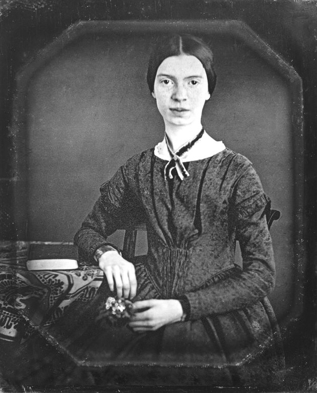 Daguerreotype of the poet Emily Dickinson, taken circa 1848. (Restored version.) From the Todd-Bingham Picture Collection and Family Papers, Yale University Manuscripts & Archives Digital Images Database, Yale University, New Haven, Connecticut.